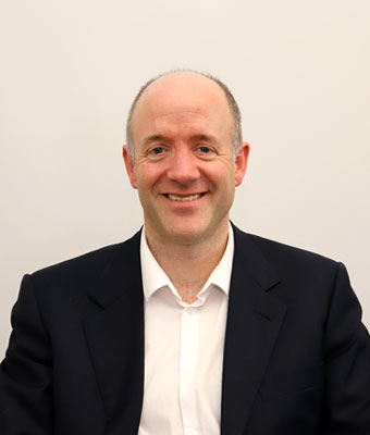 Irish politician and former Soldier Cathal Berry, taken in 2020.